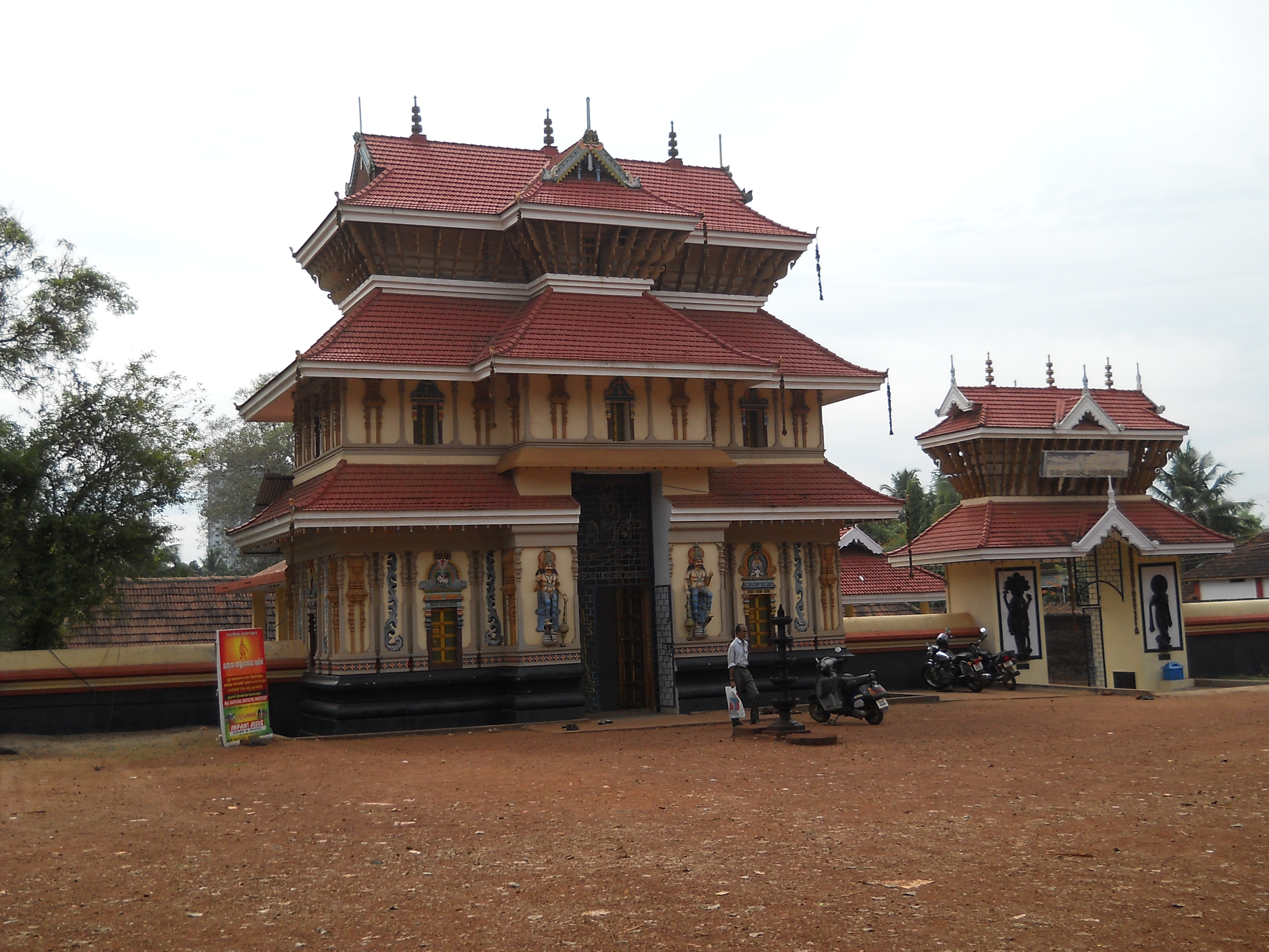 muthuvara shiva temple